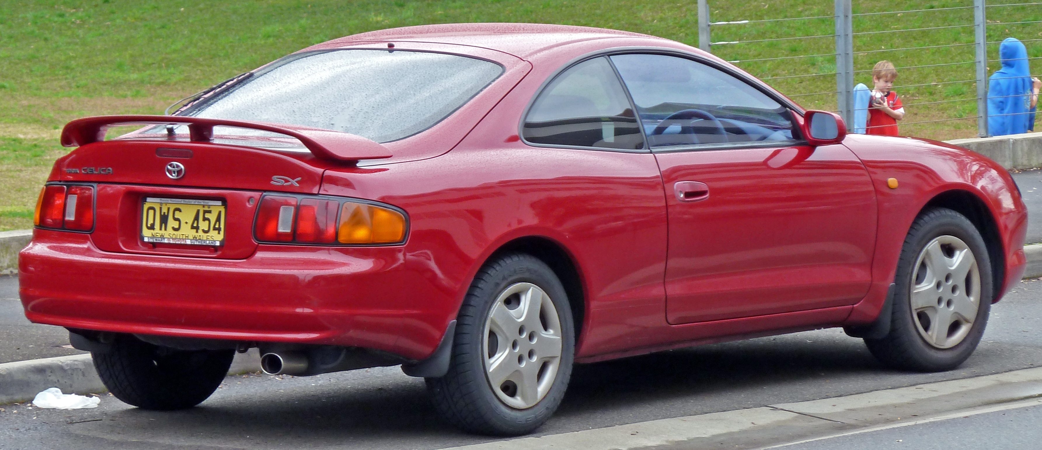 1997 Toyota Celica (ST204R) SX liftback. Photographed in Zetland, New South Wales, Australia.